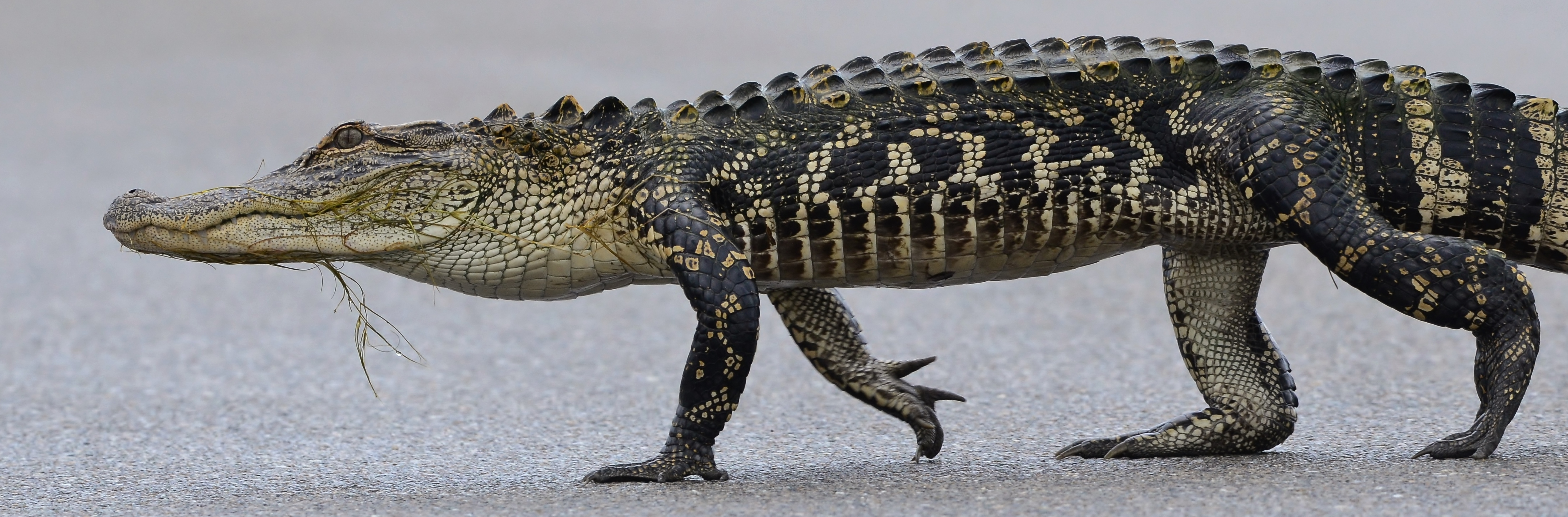 Huntington Beach State Park, Murrells Inlet, South Carolina, USA